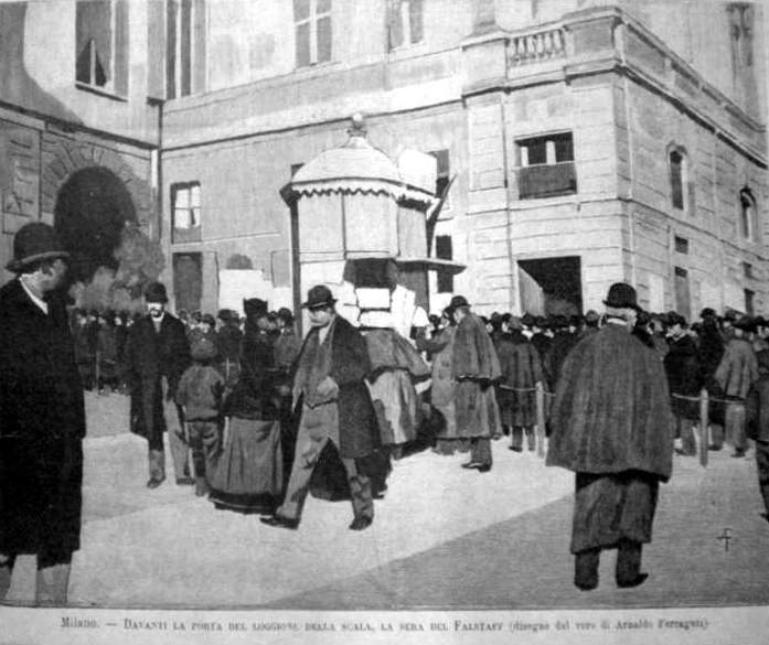 Arnaldo Ferraguti (1862-1925), Milan, Before "La Scala" the inauration day ofd the Falstaff - Lithography derived from a photograph, published in: "L'Illustrazione Italiana", 1893.